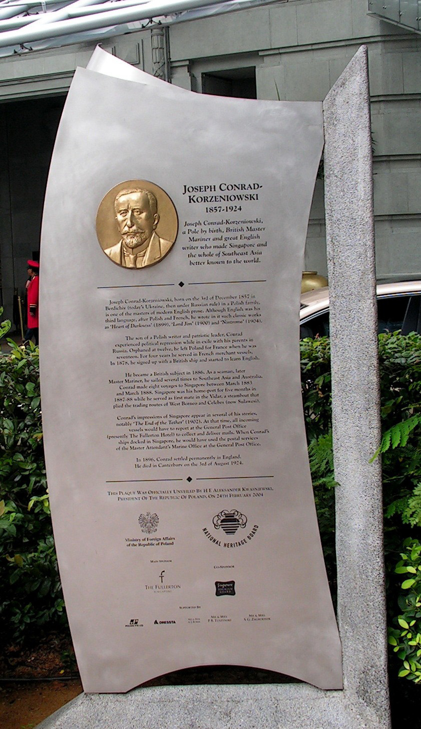 The memorial in honor of Joseph Conrad is located near The Fullerton Hotel in Singapore. Józef Teodor Konrad Korzeniowski (alias - Joseph Conrad) (1857-1924) – British writer of Polish origin. Was born in Berdychiv in Ukraine, while been of the Russian Empire. He was granted British nationality in 1886.